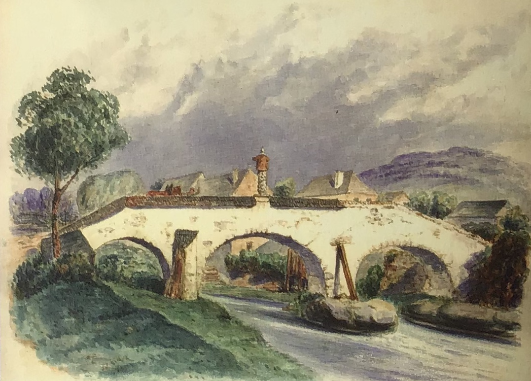 Römerbrücke frühes 19.Jh.